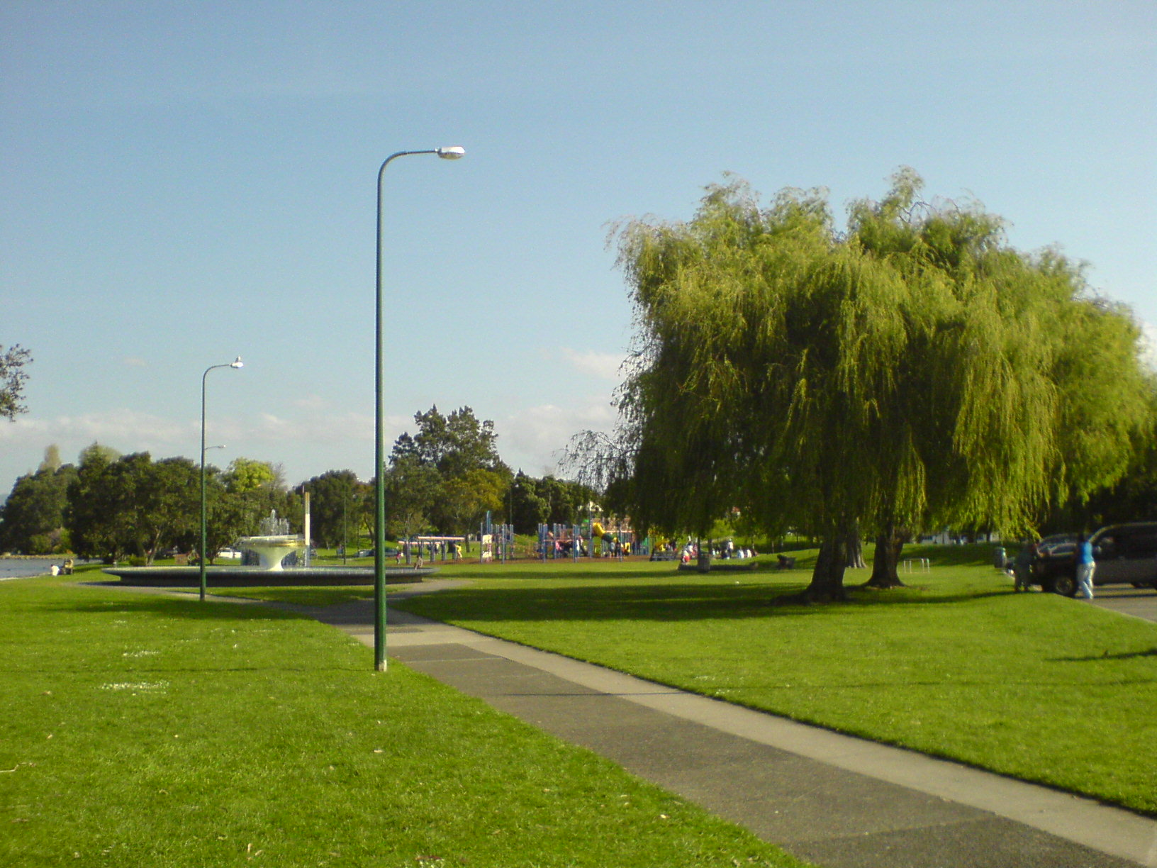 Walkway leading into the South side of Memorial Park, Tauranga, New Zealand